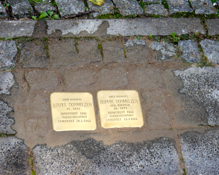 Stolperstein for Louis and Sophie Dormitzer in Virchowstraße 9, Nuremberg